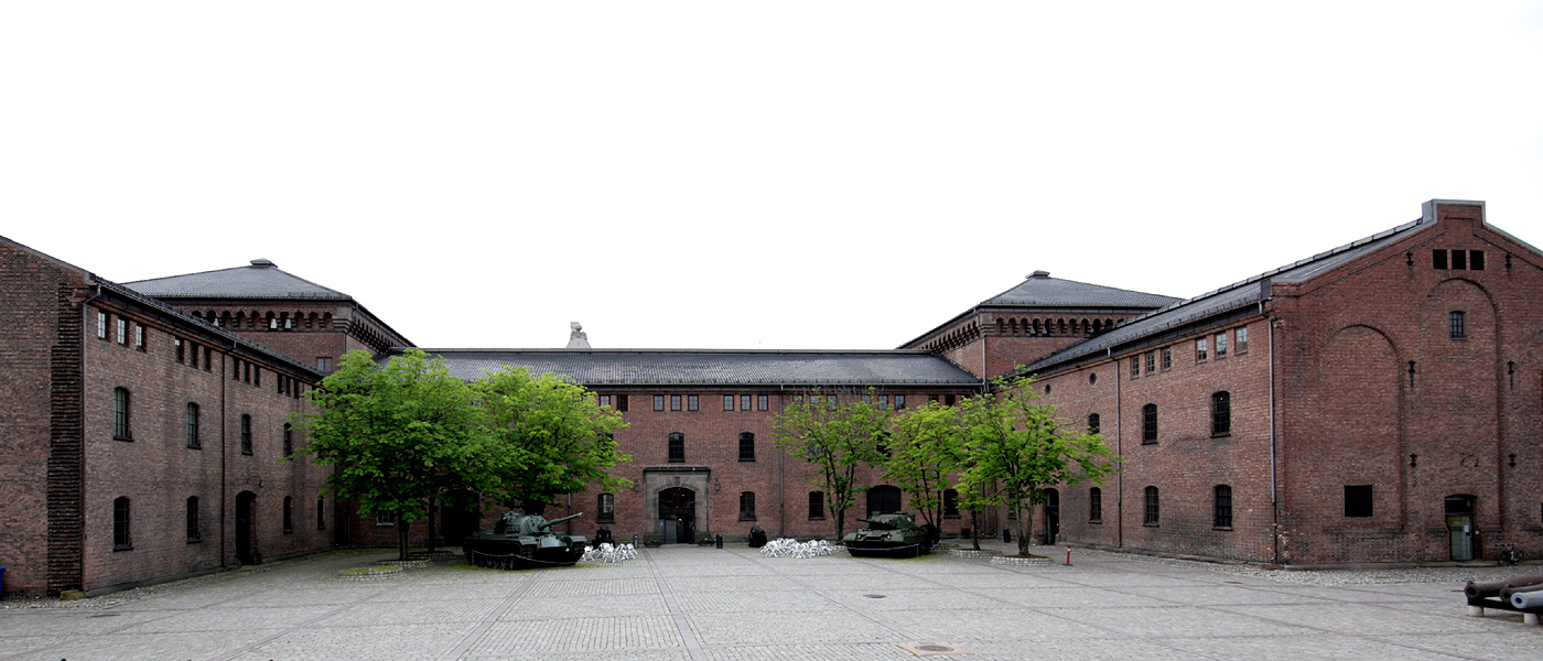 National Defence Museum of Norway at Akershus Castle, Oslo.